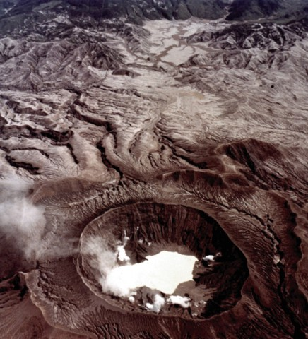 A high-altitude aerial oblique view taken on November 4, 1982 shows the effect of the El Chichón eruption about seven months later. This view from the west shows fumaroles around the new lake partially filling the crater and areas devastated by pyroclastic flows and surges. The circular rim of the nearly 2-km-wide pre-eruption somma can be seen surrounding the 1982 crater rim.